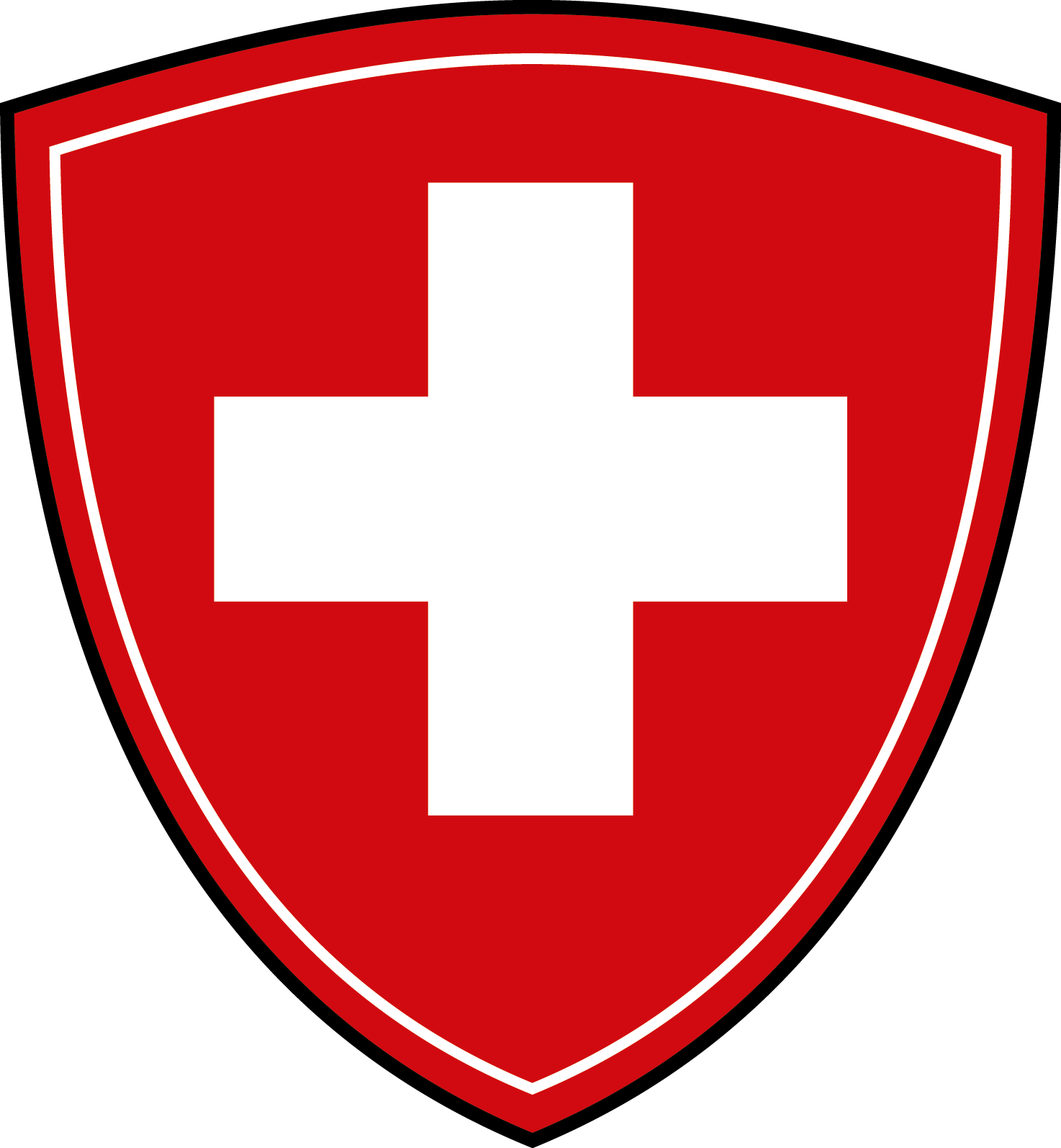 Switzerland national ice hockey team logo 2017